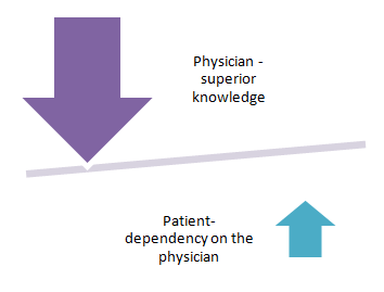 This diagram represents the physician/patient relationship regarding SID.